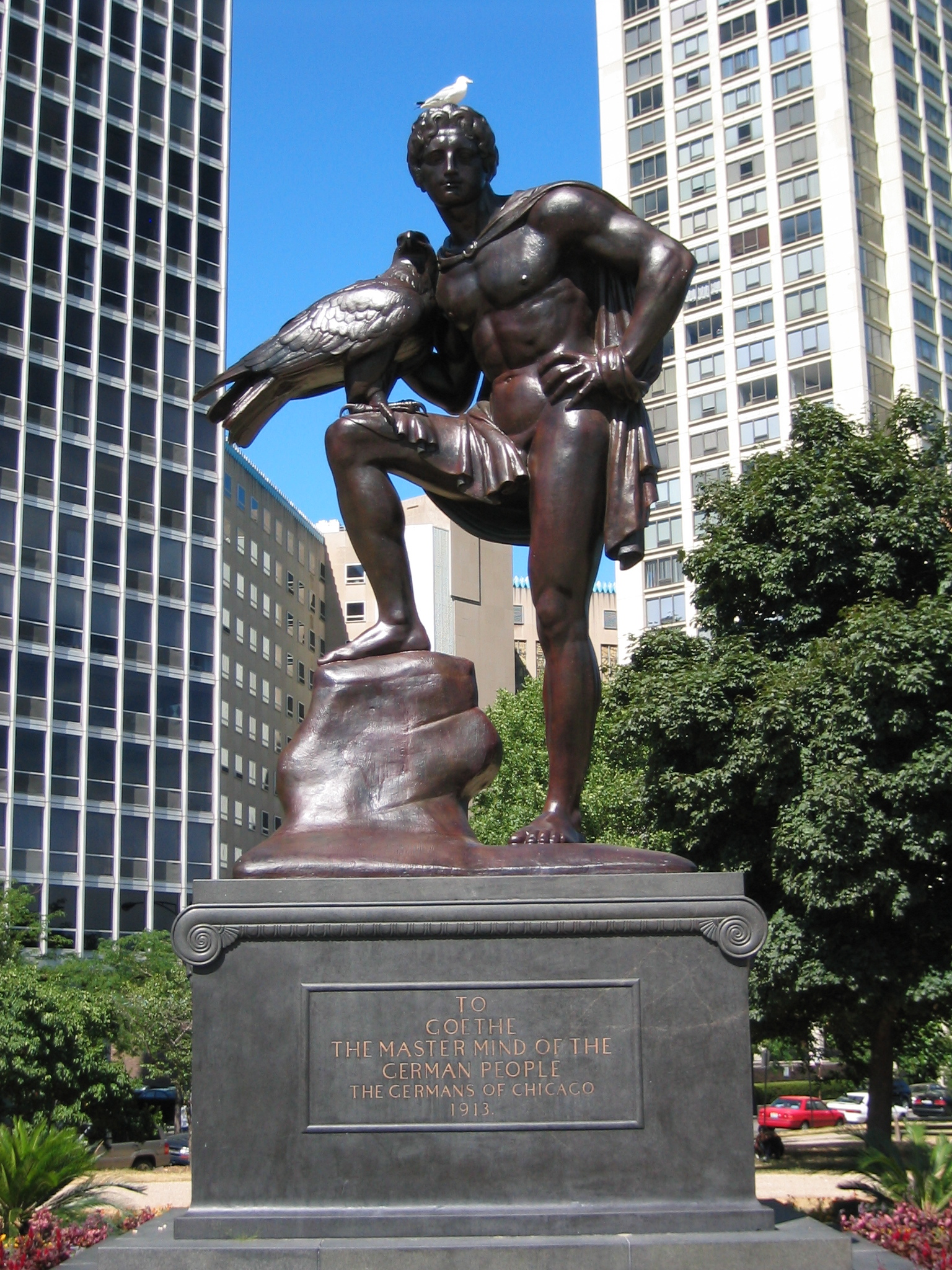 Goethe Monument in Chicago, Illinois, sculpted by Hermann Hahn (1913); dedicated on June 16, 1914. See Search results for Goethe Hahn. Collections Search Center. The Smithsonian Institution. Retrieved on 2011-08-17.